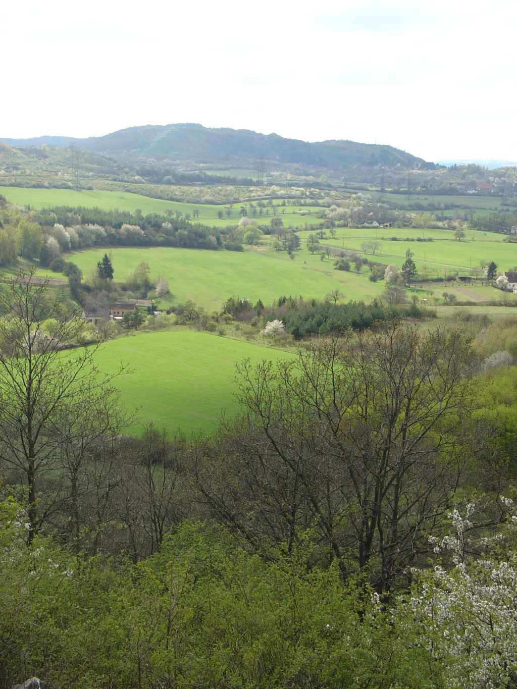 Úhošť hill near Kadaň